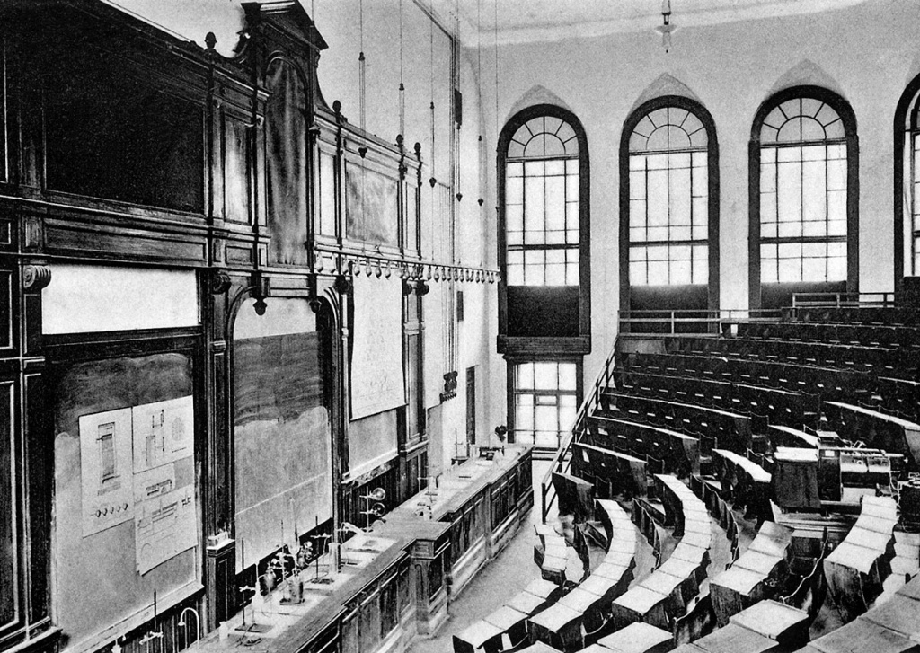 Polytechnical Institute, Large Chemical Auditorium, 1902